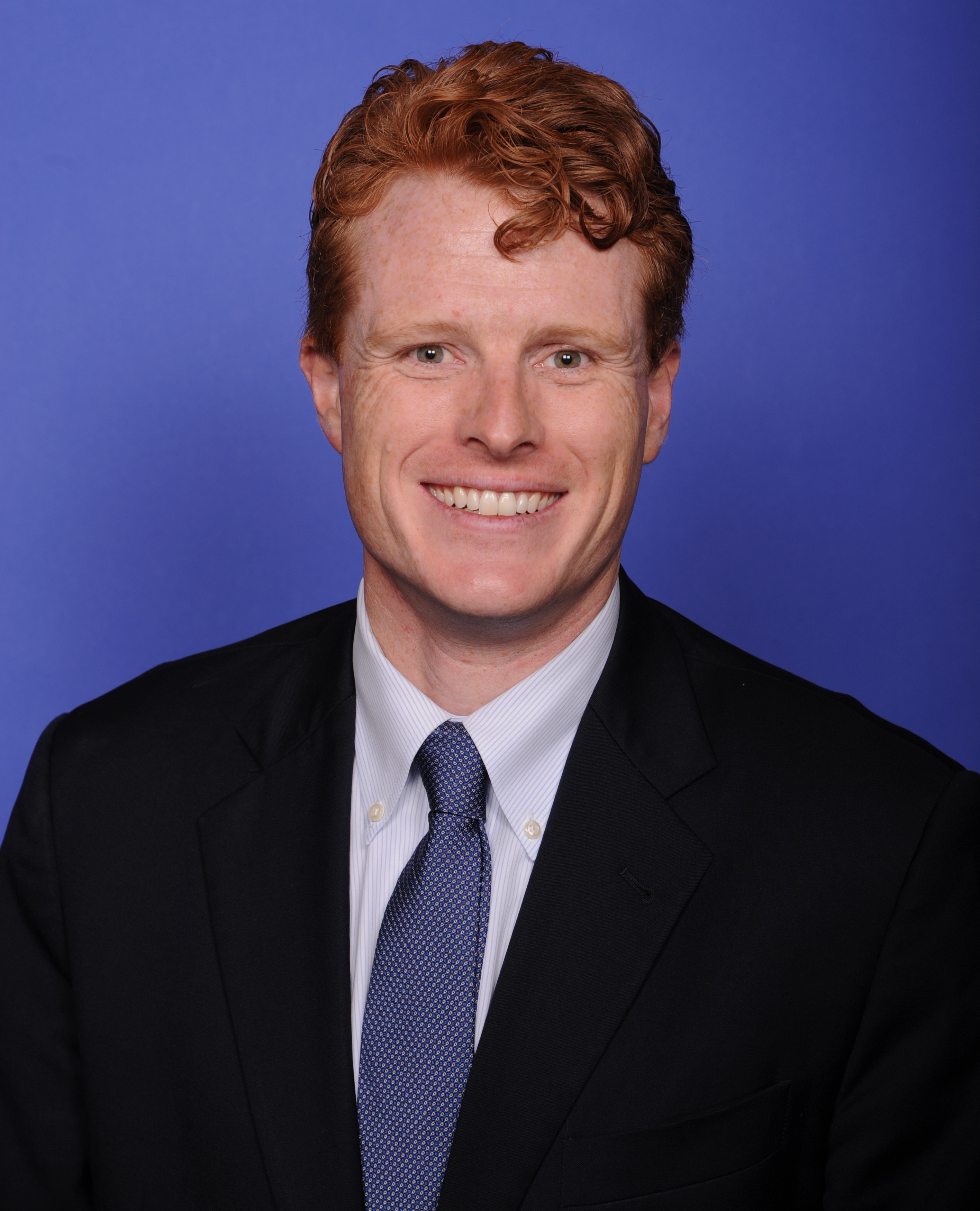 Joe Kennedy III's official photo